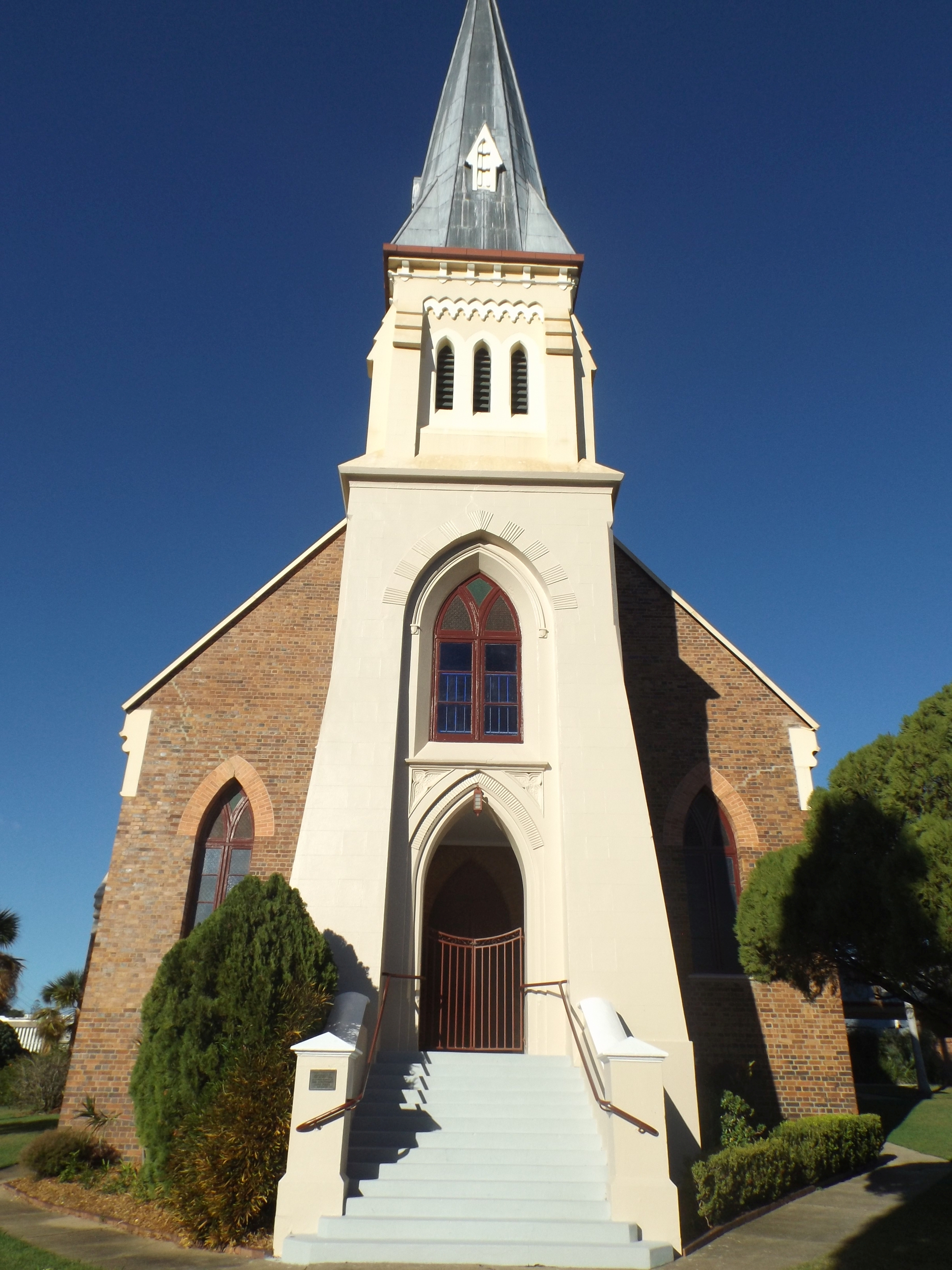 Photo of the front entrance to St Stephen's Church at Ipswich, Queensland, Australia.